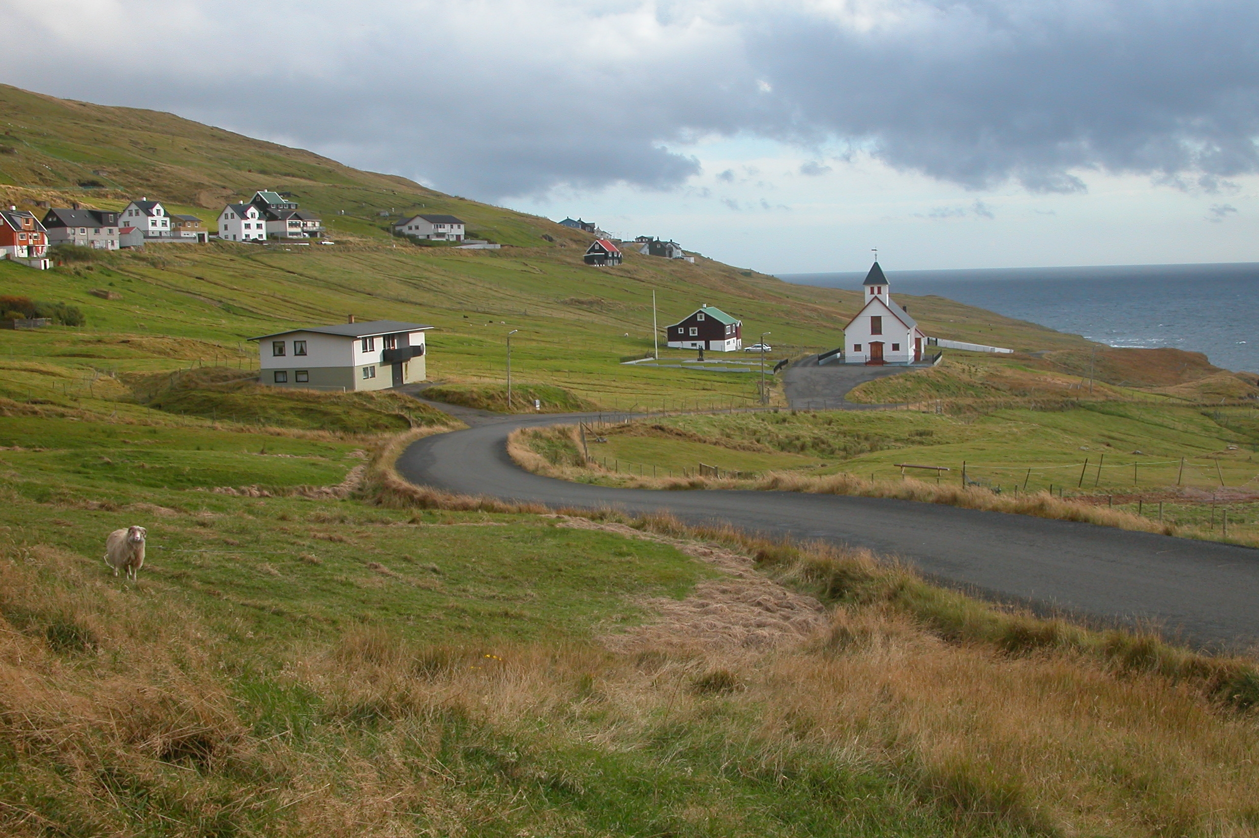 Rituvík in Eysturoy, Faroe Islands